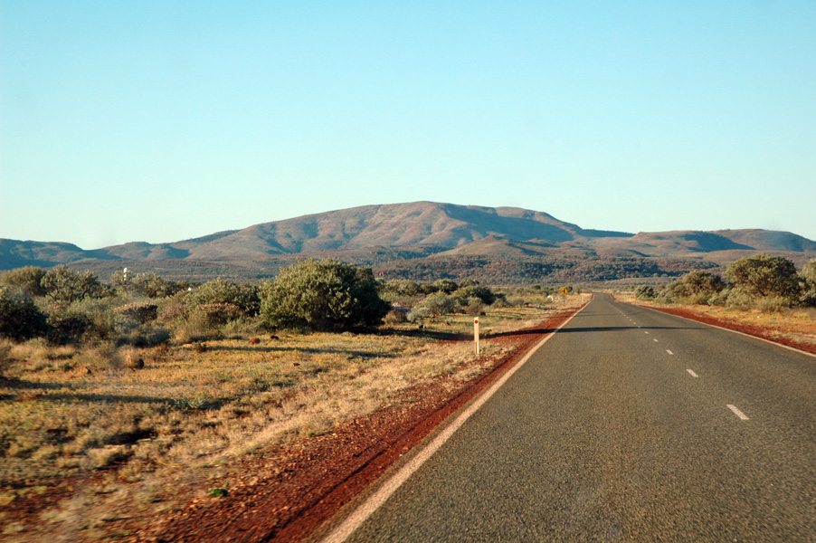 The Highway just outside Paraburdoo, Western Australia, heading north towards the town of Tom Price.